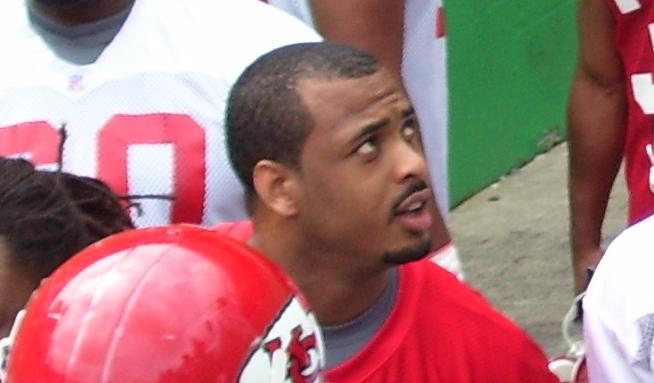 Derrick Johnson, linebacker for the Kansas City Chiefs.